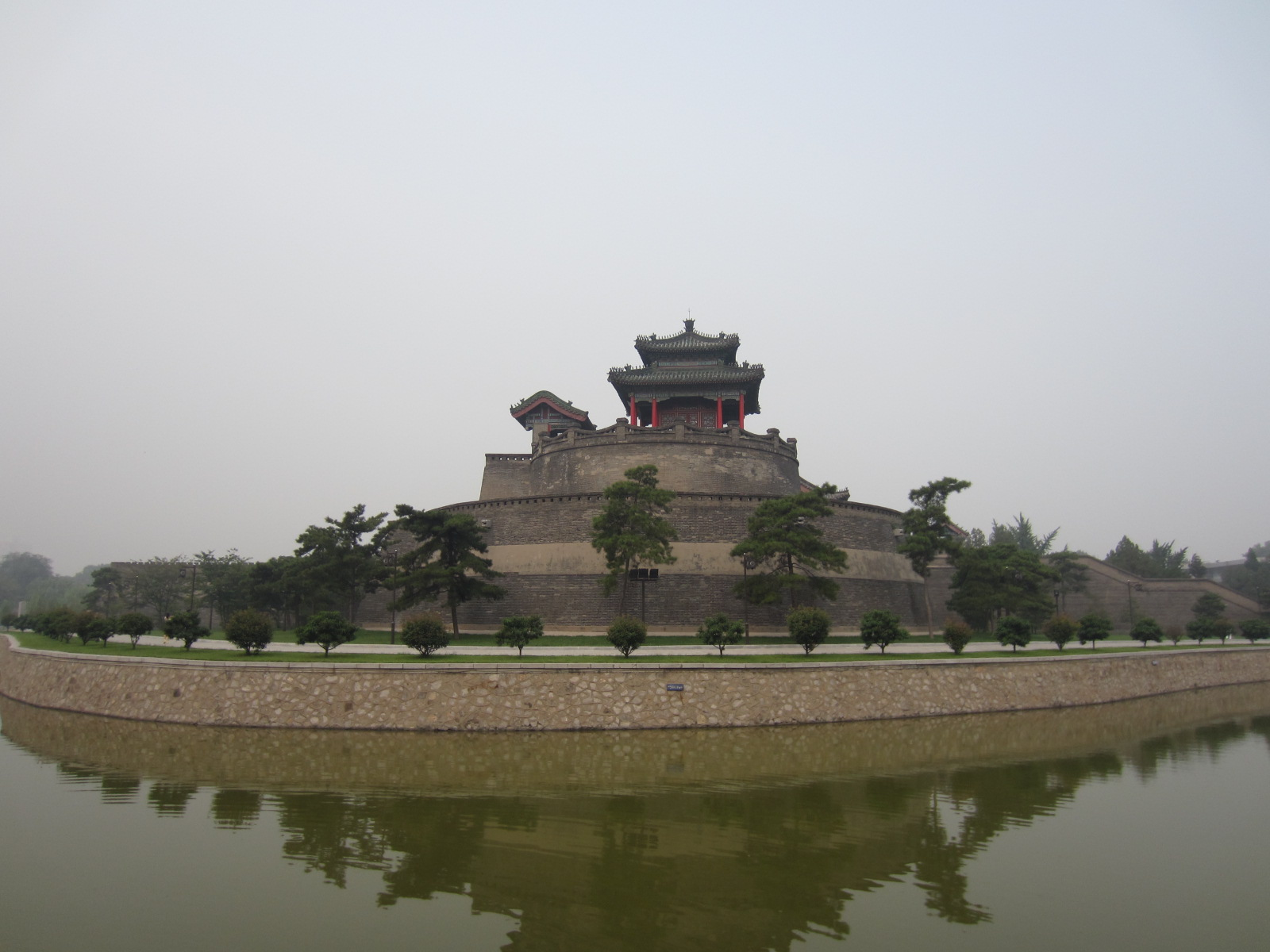 Wuling congtai